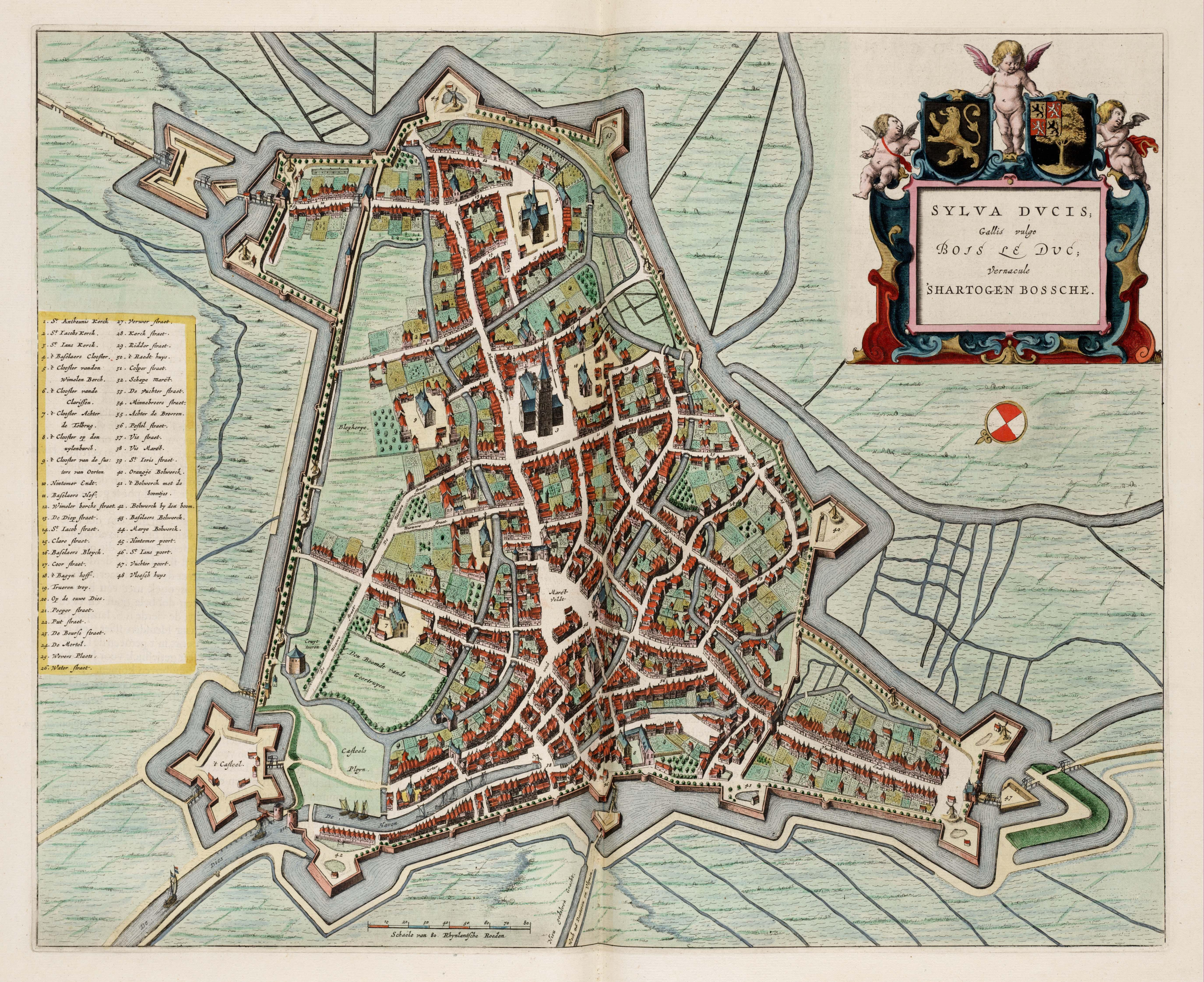 Map of 's-Hertogenbosch by Joan Blaeu, 1649